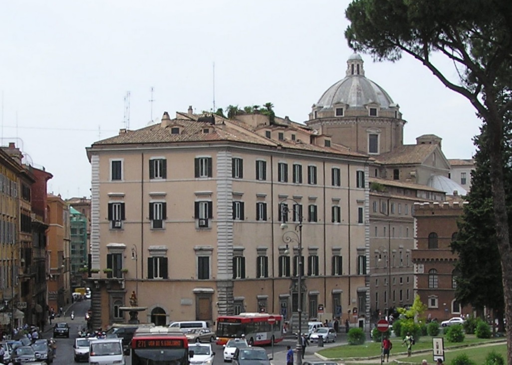 Palazzo Muti Bussi